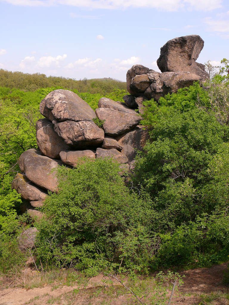 One of the logan stones near Pákozd, Hungary